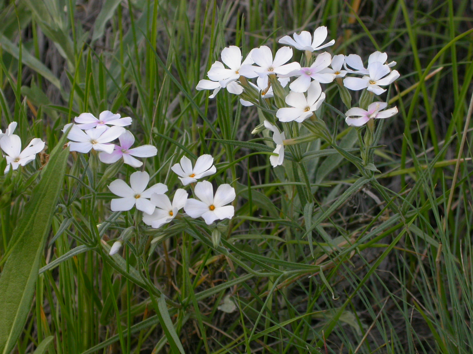 The opposited linear leaves blend in with those of the grasses (here mostly Poa pratensis).